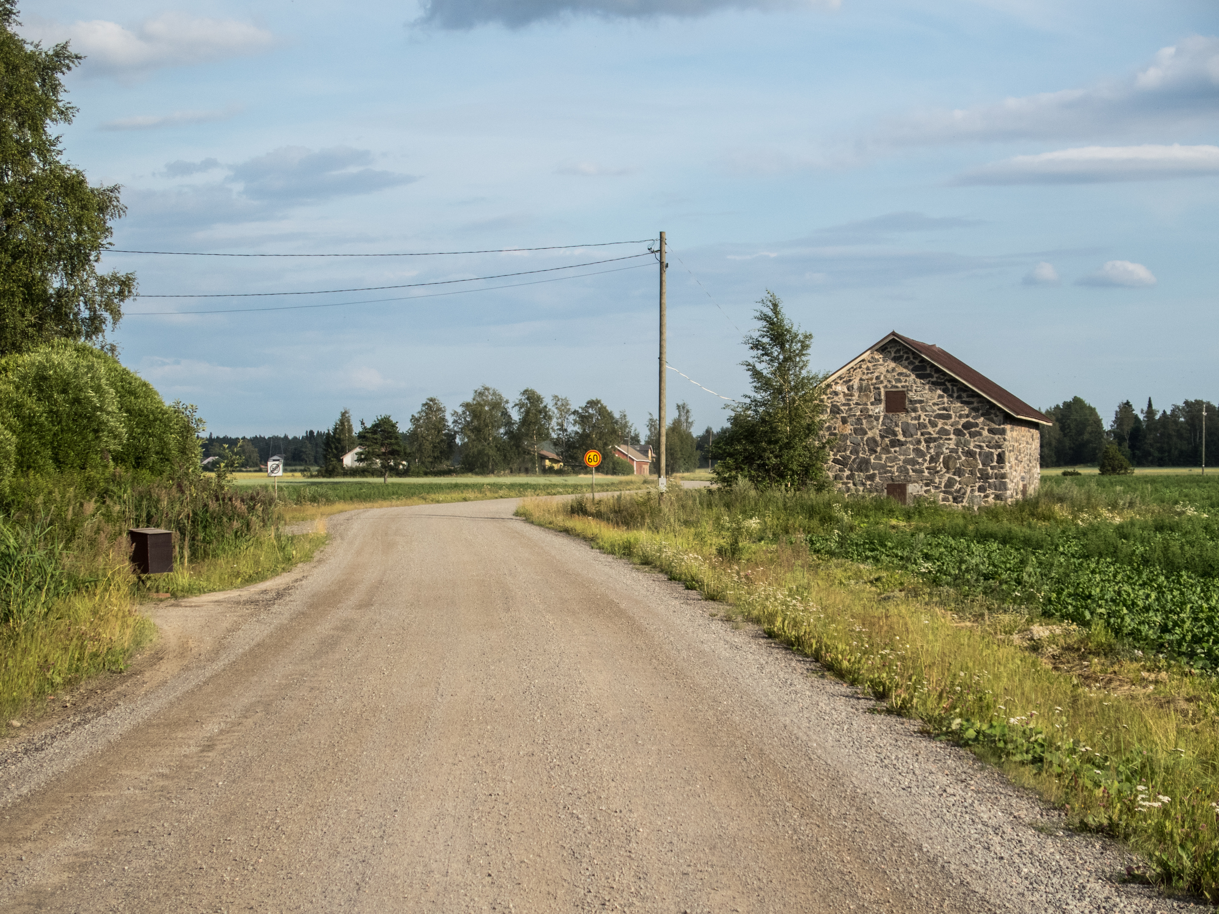 Road to Ylistaro village in Kokemäki, Finland.